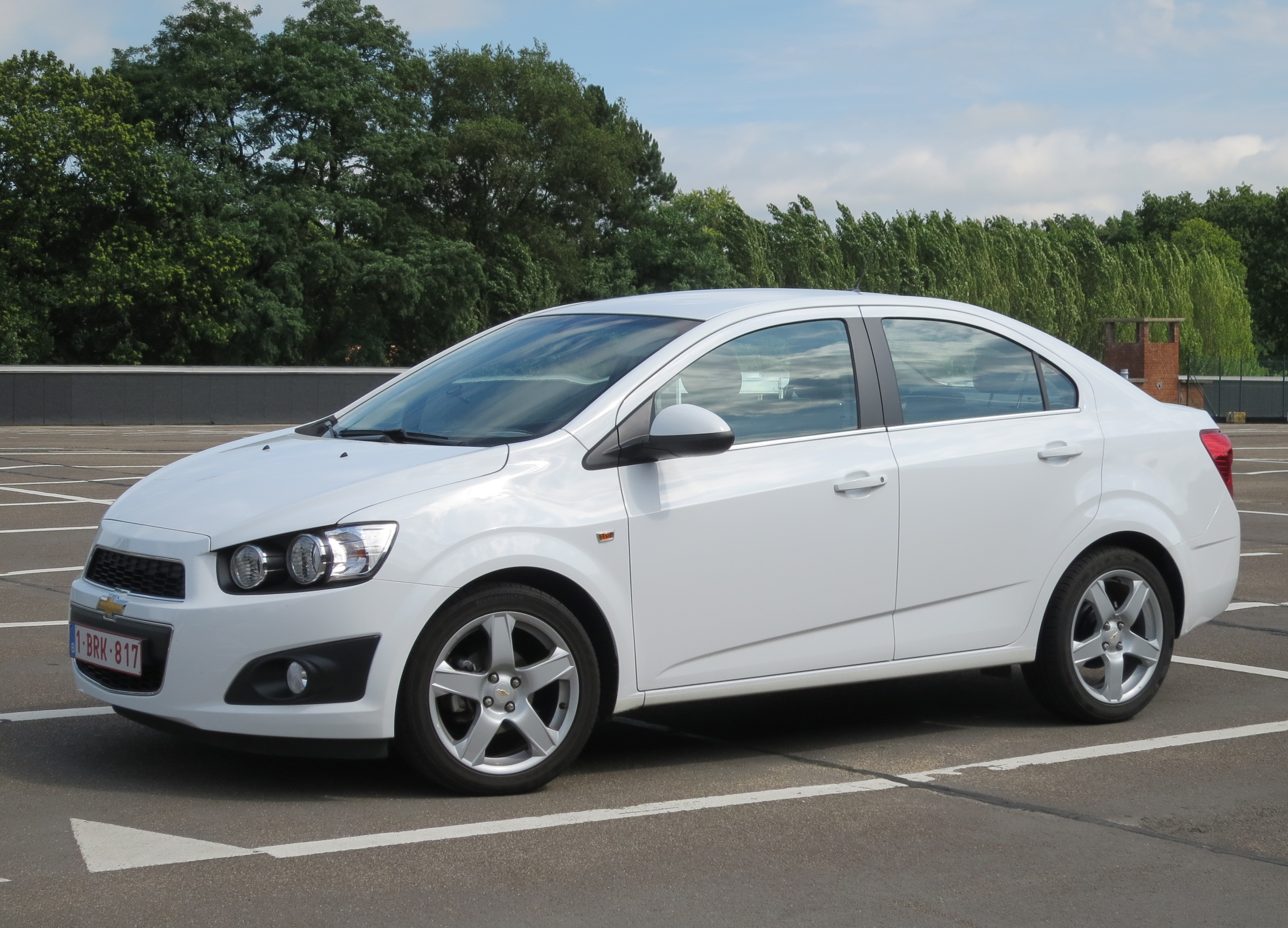 Chevrolet Aveo (T300) in Belgium (2015)